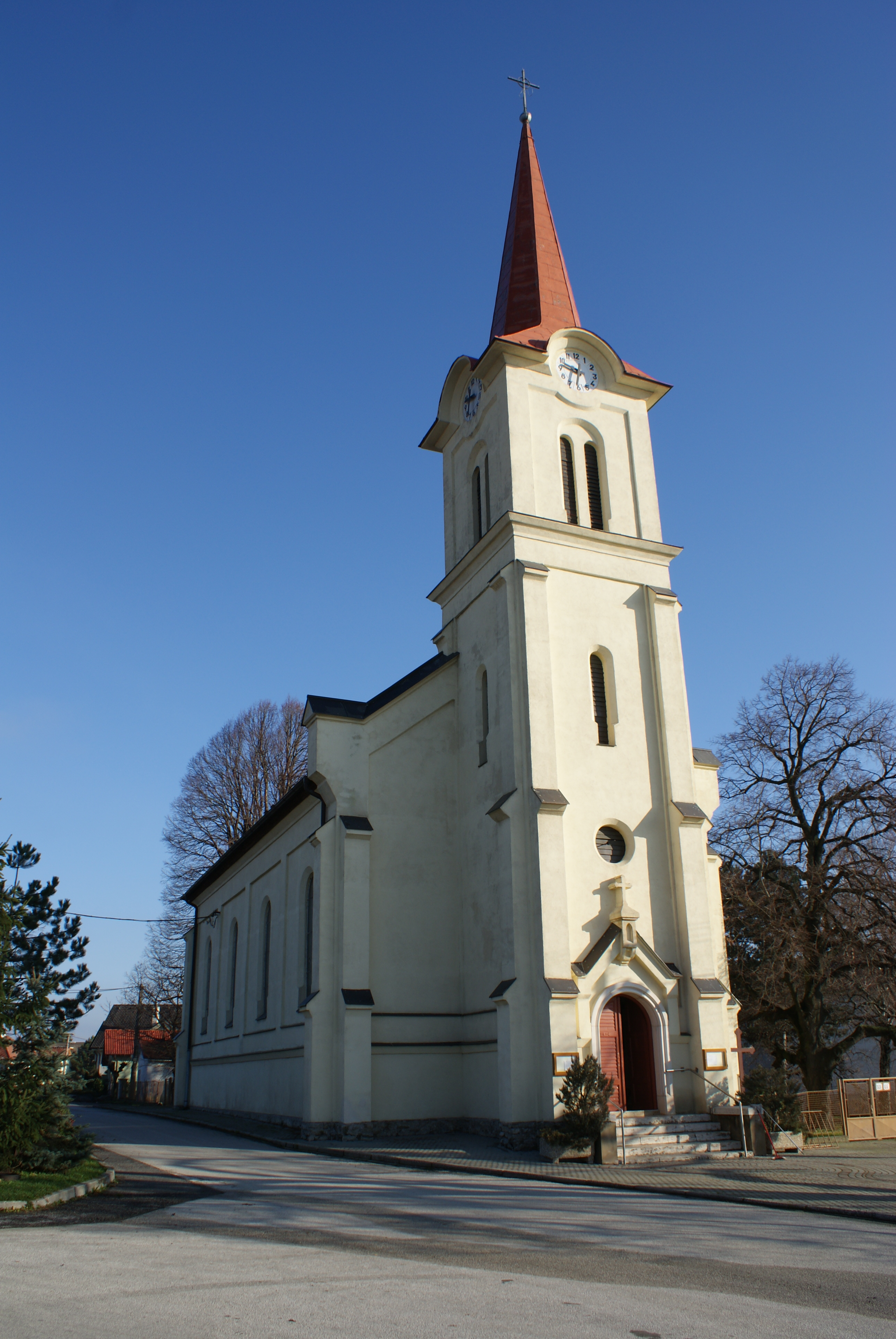 Dubová, Pezinok District, Slovakia, Front view of the church